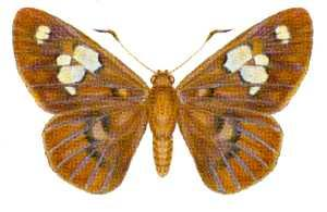 identifying features of Australian butterfly species wing pattern